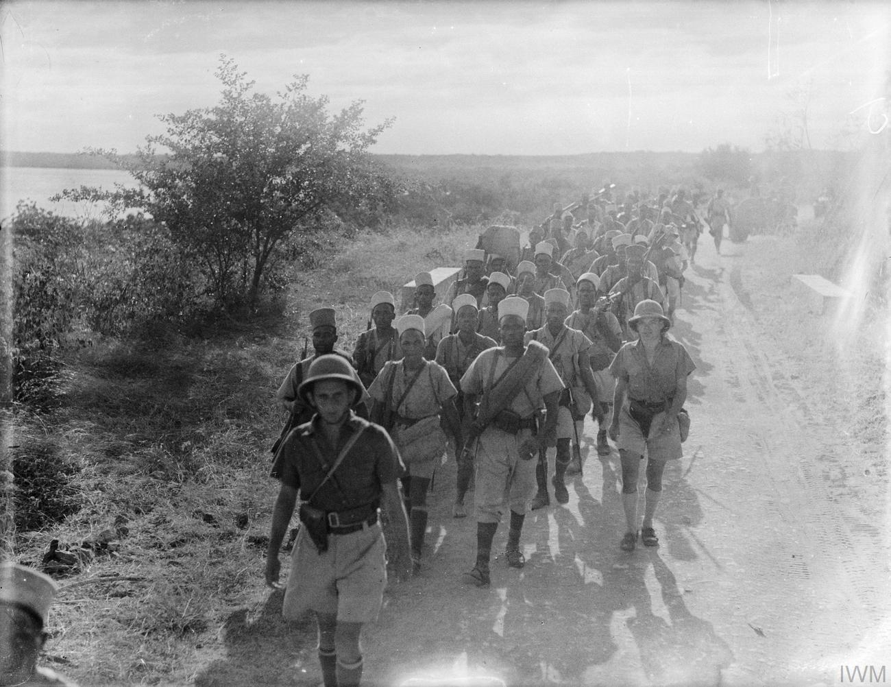 French troops and sailors including Sengalese troops marching away from their HQ after surrendering at Diego Suarez. British troops presenting arms as they pass.